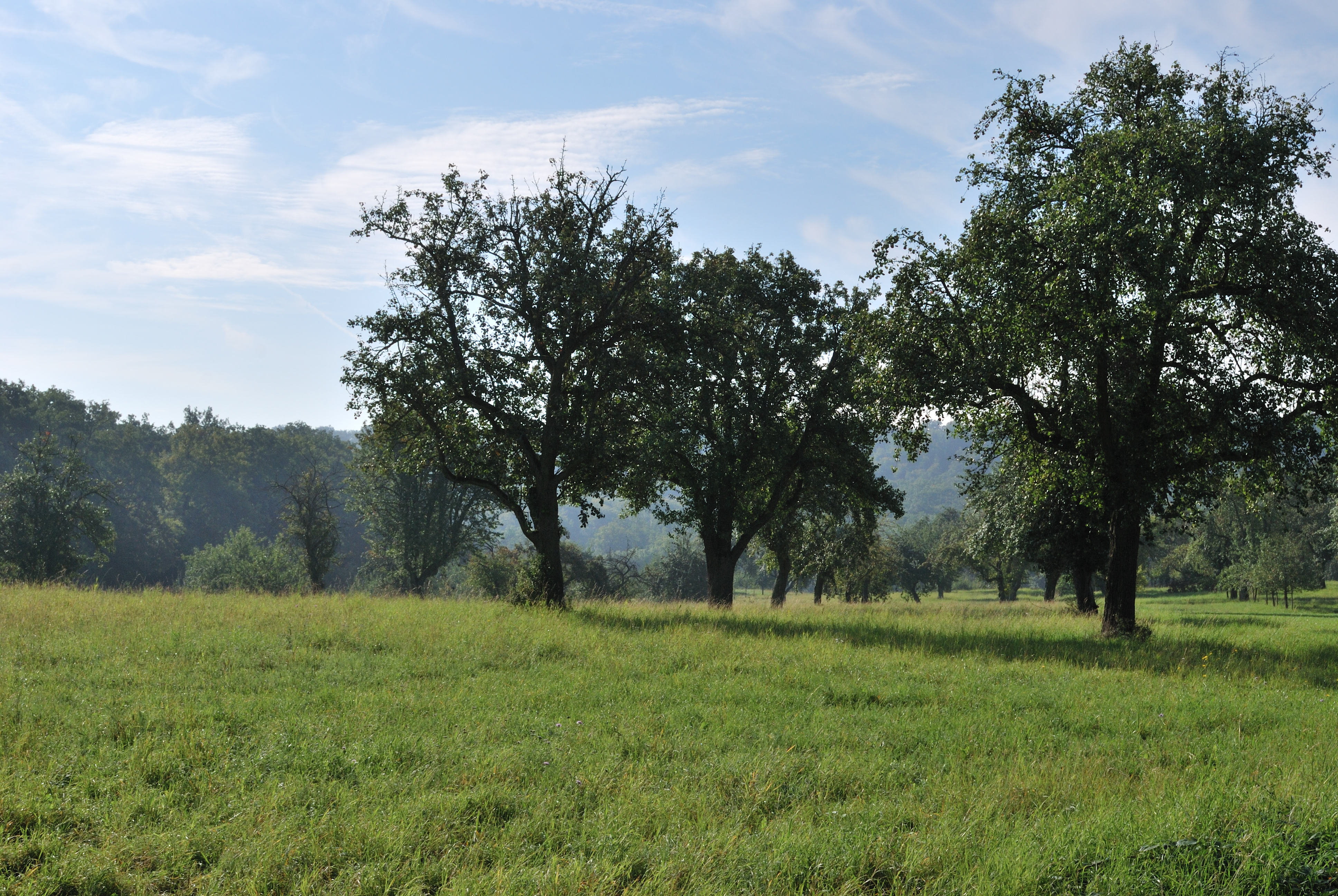 Fruit orchard in Greutterwald near Stuttgart in Germany.